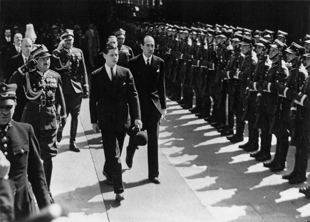 Crown Prince Michael of Romania (future King Michael of Romania) in Warsaw, following his visit in the United Kingdom for the coronation of King George VI. Jozef Beck , Foreign Affairs Minister of Poland also depicted.